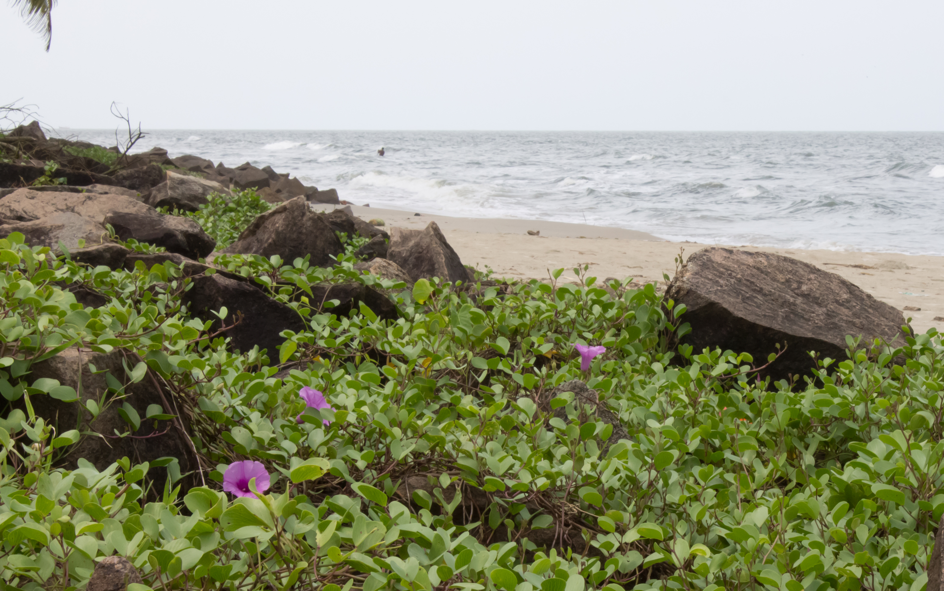 Ipomoea pes-caprae growing on the seaward slope of the protective sea wall. Alappuzha, Kerala, India.